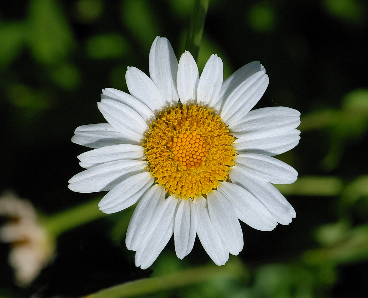 Flower of a Leucanthemum lacustre. Botanical Garden, Lisbon, Portugal.